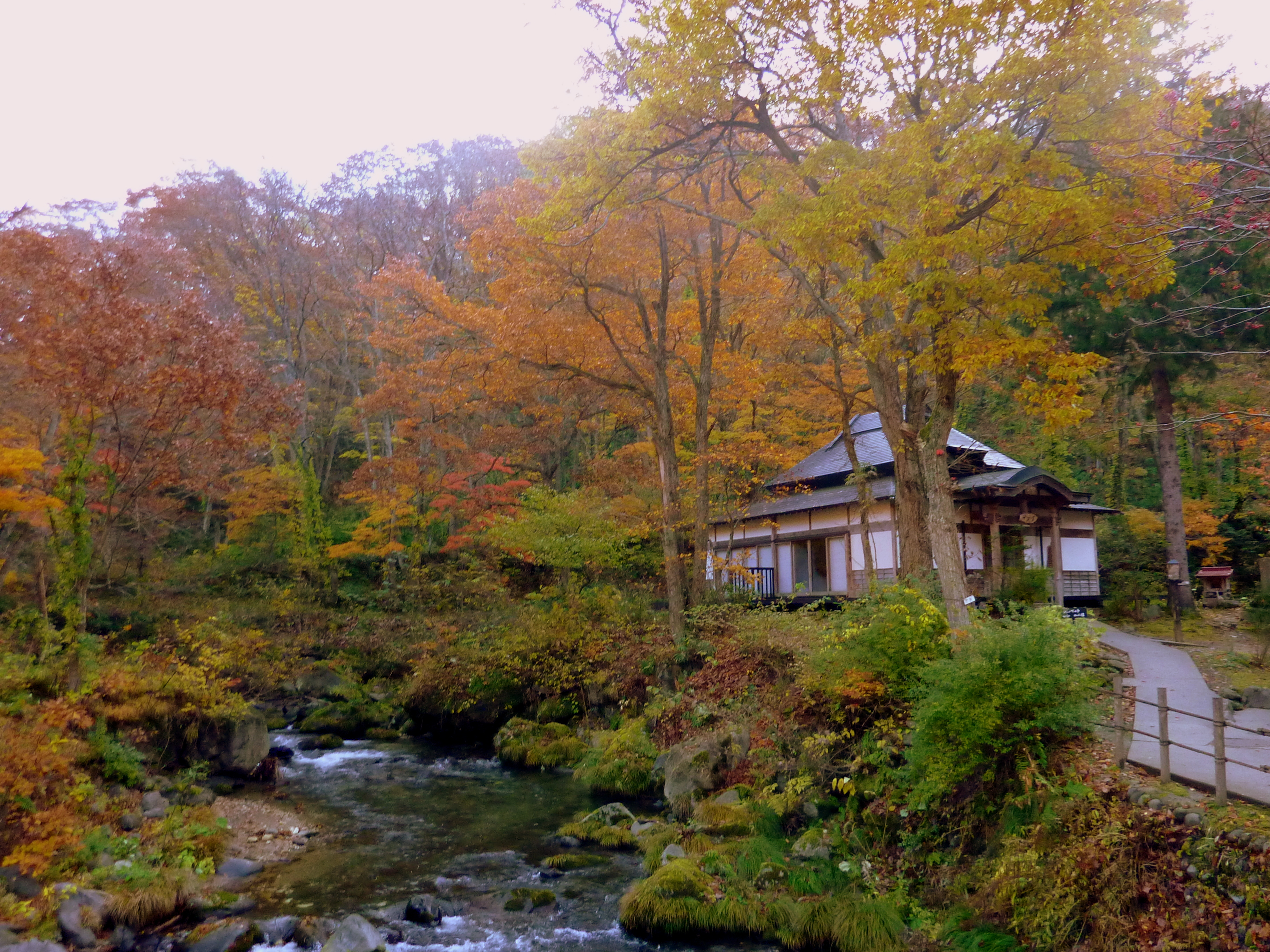 aoni onsen ryokan in kuroishi